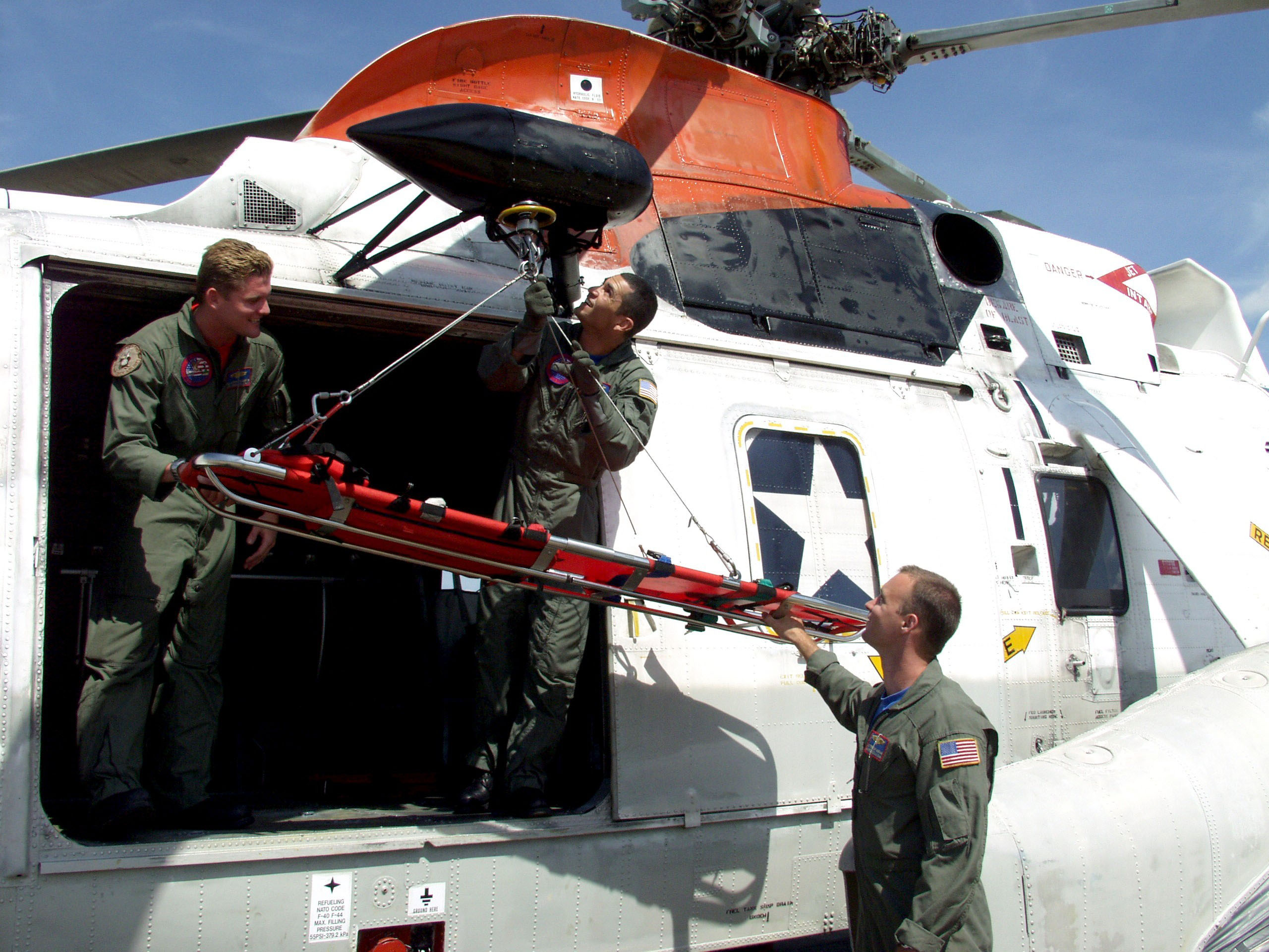 Pensacola, Fla. (May 25, 2004) - Hospital Corpsman 3rd Class Christopher Sandoval connects a rescue litter to the hoist of an UH-3H Sea King helicopter as Aviation Electricians Mate 2nd Class Anthony Robinson, right, and Aviation Electronics Mate 2nd Class Trevor Varian, bottom, assist. The search and rescue aircrew are assigned to Naval Air Station Pensacola Helicopter Support Unit. U.S. Navy photo by Sheri L. Crowe (RELEASED)